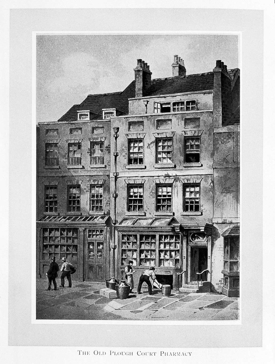 Plough Court. General Collections Keywords: Institutions